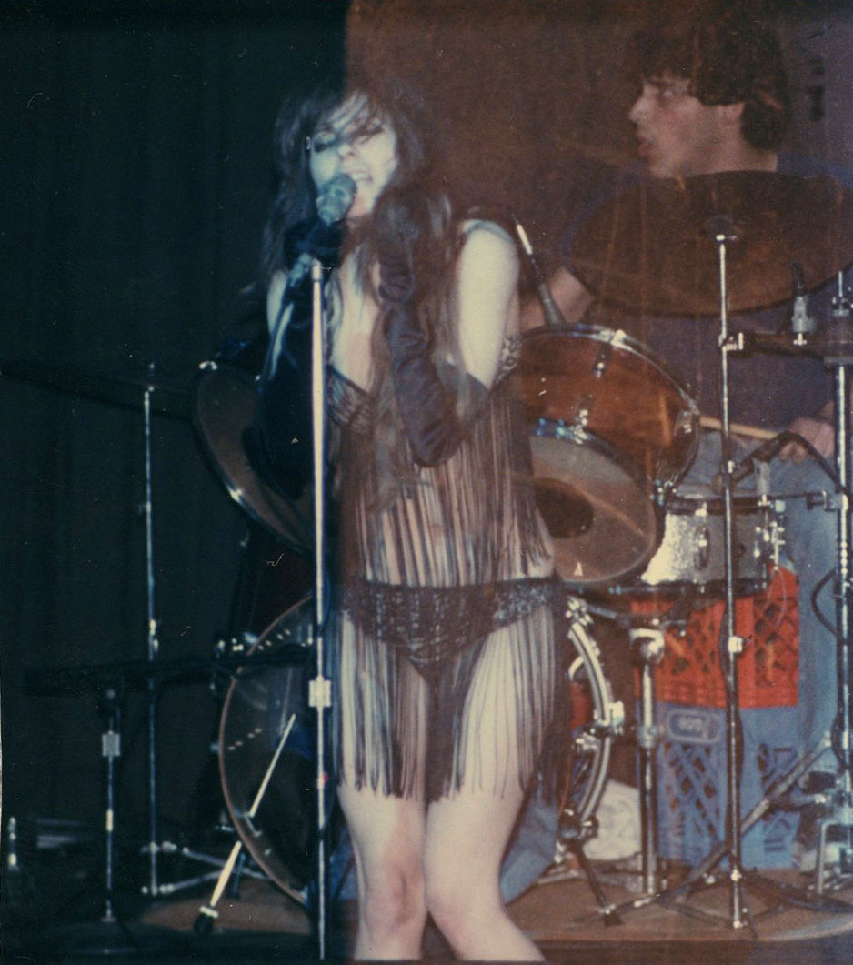 Niagara (Born 23 Aug 1956) Performing with Destroy All Monsters, Ann Arbor, Michigan, USA, spring 1982.